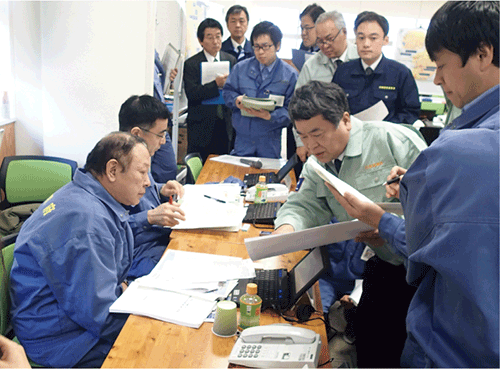 Fumiaki Matsumoto, Senior Vice-Minister of Cabinet Office, participated in the disaster drill of Shikoku Local Headquarters for Emergency Disaster Control at Takamatsu Sunport National Government Building in Takamatsu City, Kagawa Prefecture on January 15, 2016.